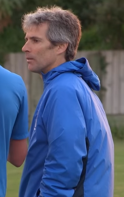 Ramon Tribulietx in training with Auckland City